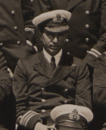 Commander Arthur Bedford, RN, photographed aboard HMS Kent in 1915. Identified from rank insignia; the only executive-branch Commander present.